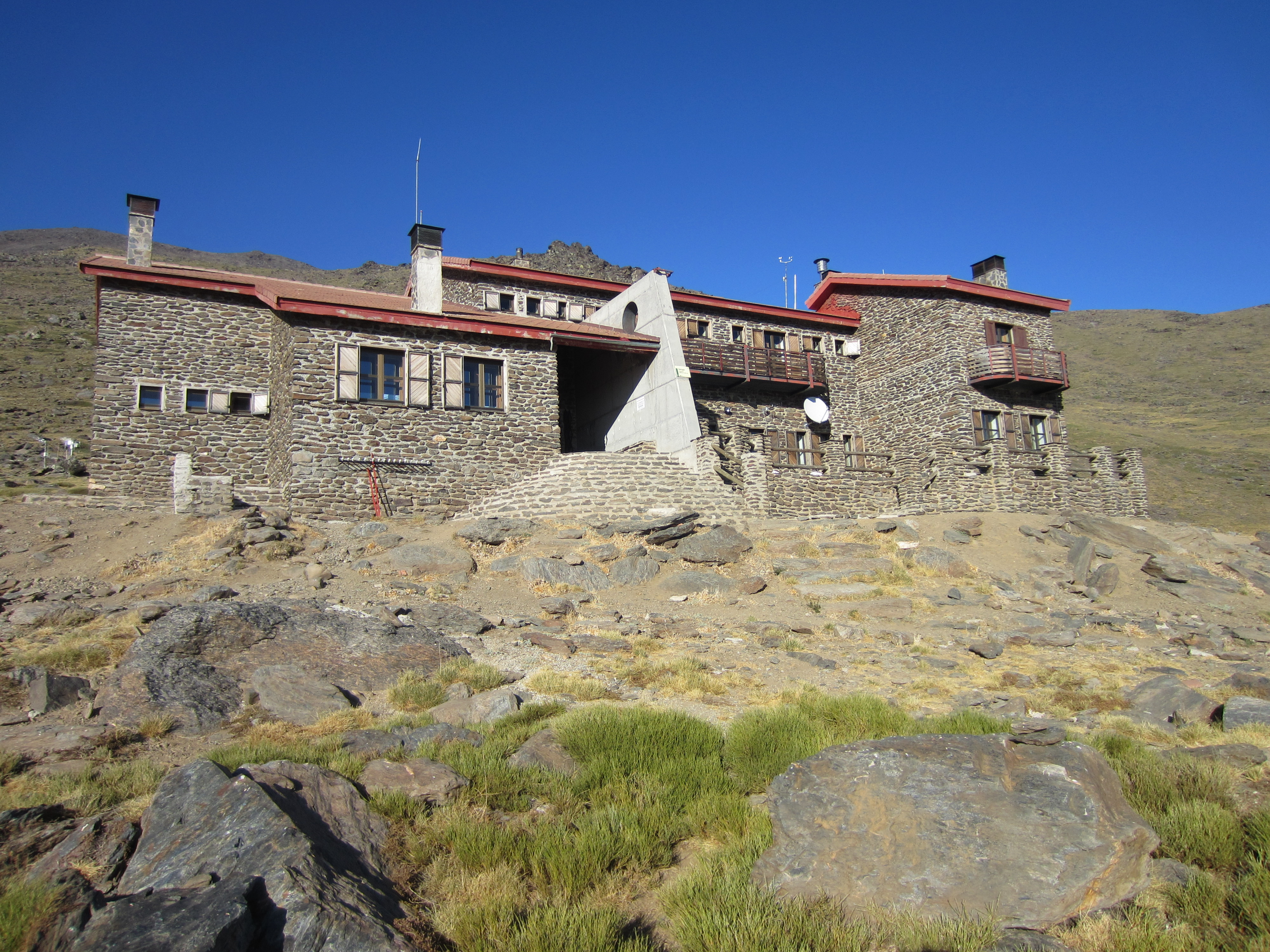 Mountain Hut "Refugio Poqueira" - Sierra Nevada, Southern Spain